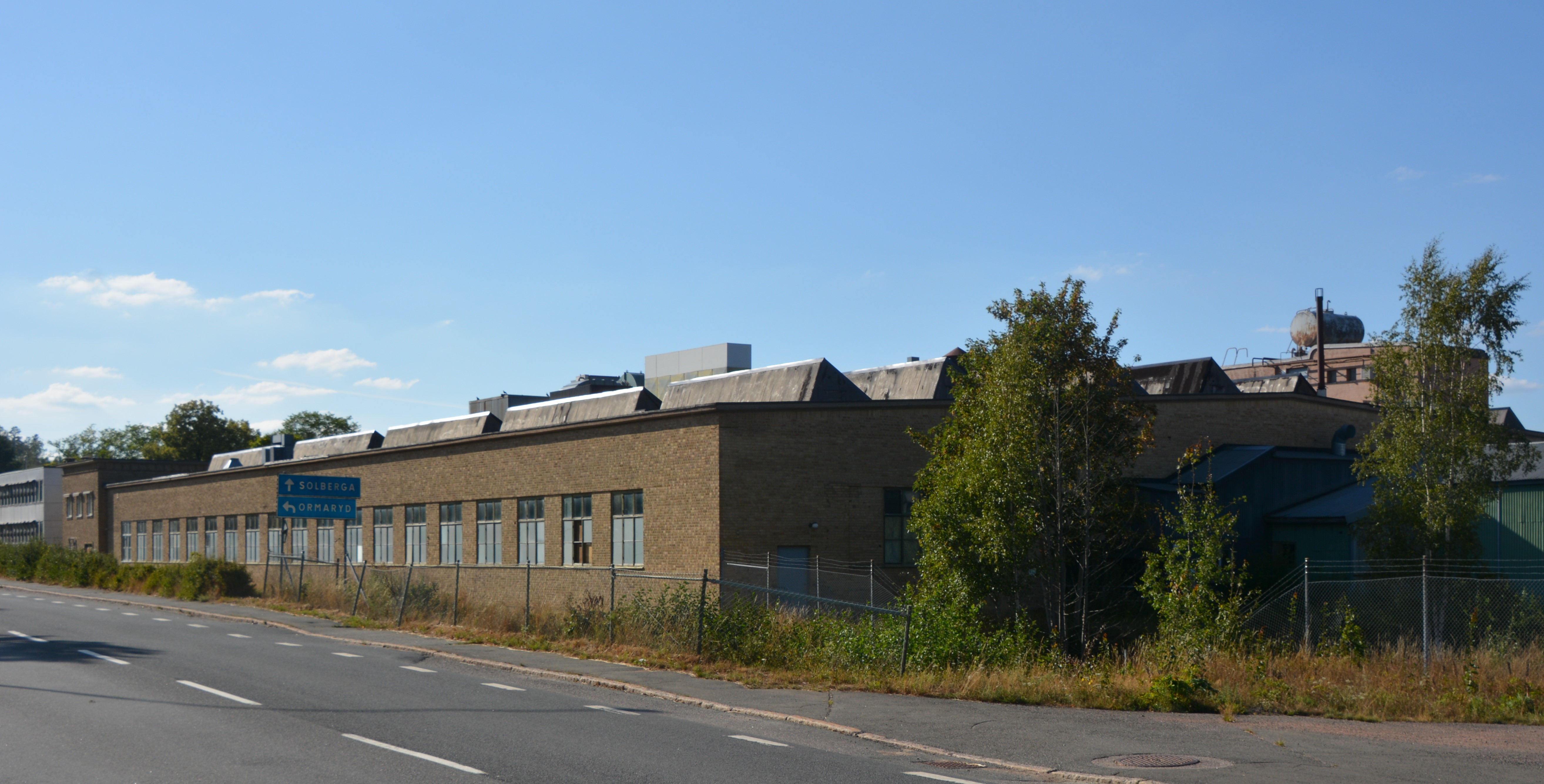 Annebergs Vaxduksfabrik, Anneberg, Sweden